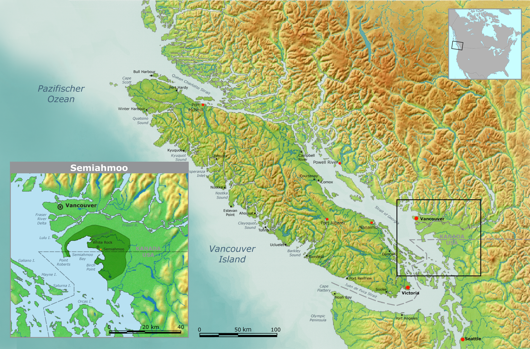 Map of traditional Semiahmoo tribal territory.